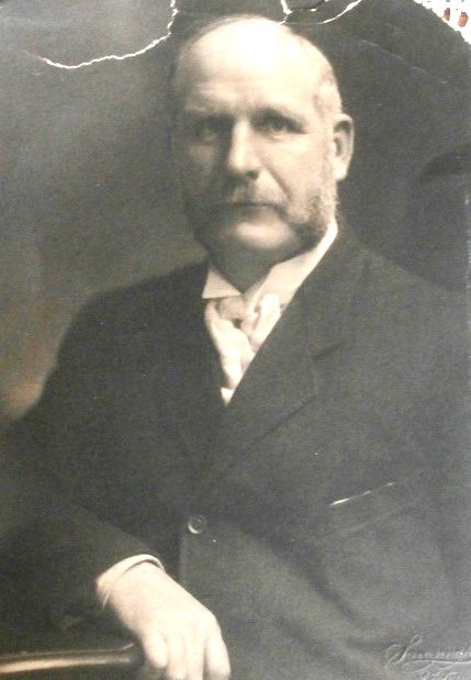 Photograph, c. 1914, of William John Sutton (1859-1914) by John Savannah (1868-1925)